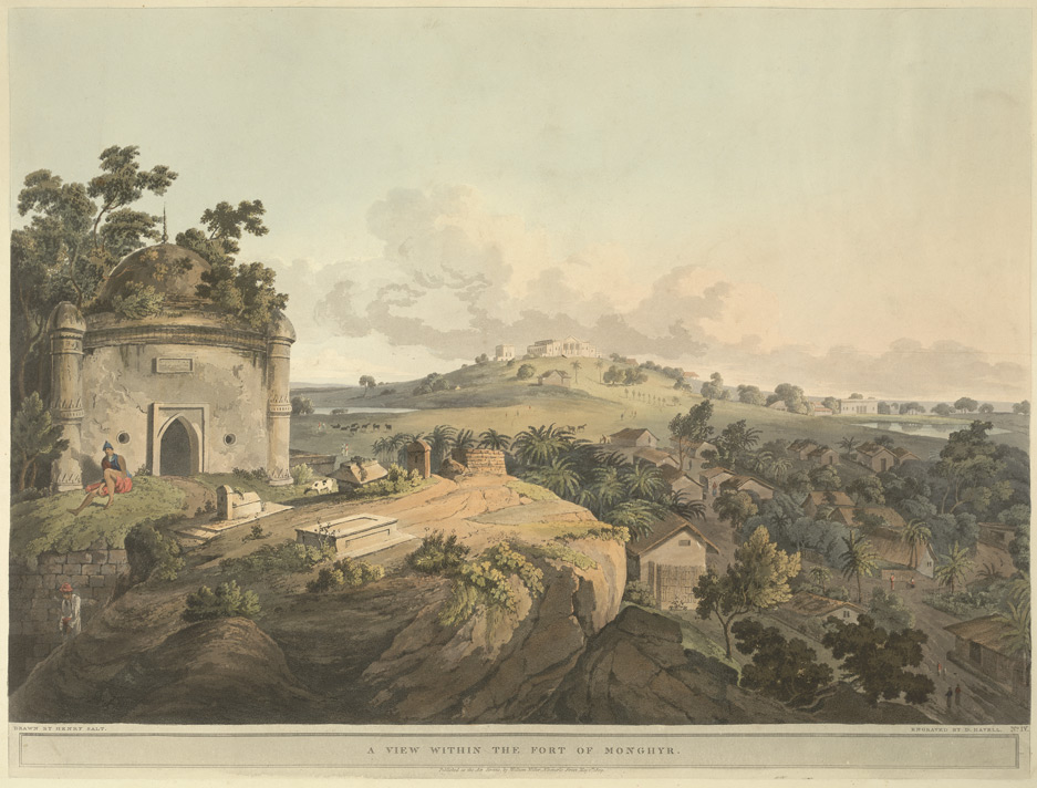 View within the Fort of Monghyr (Bihar), with in the foreground the shrine of Shah Nafah erected in 1497 by Prince Daniyal, son of Ala al-Din Husain of Bengal, with Muslim graves around it